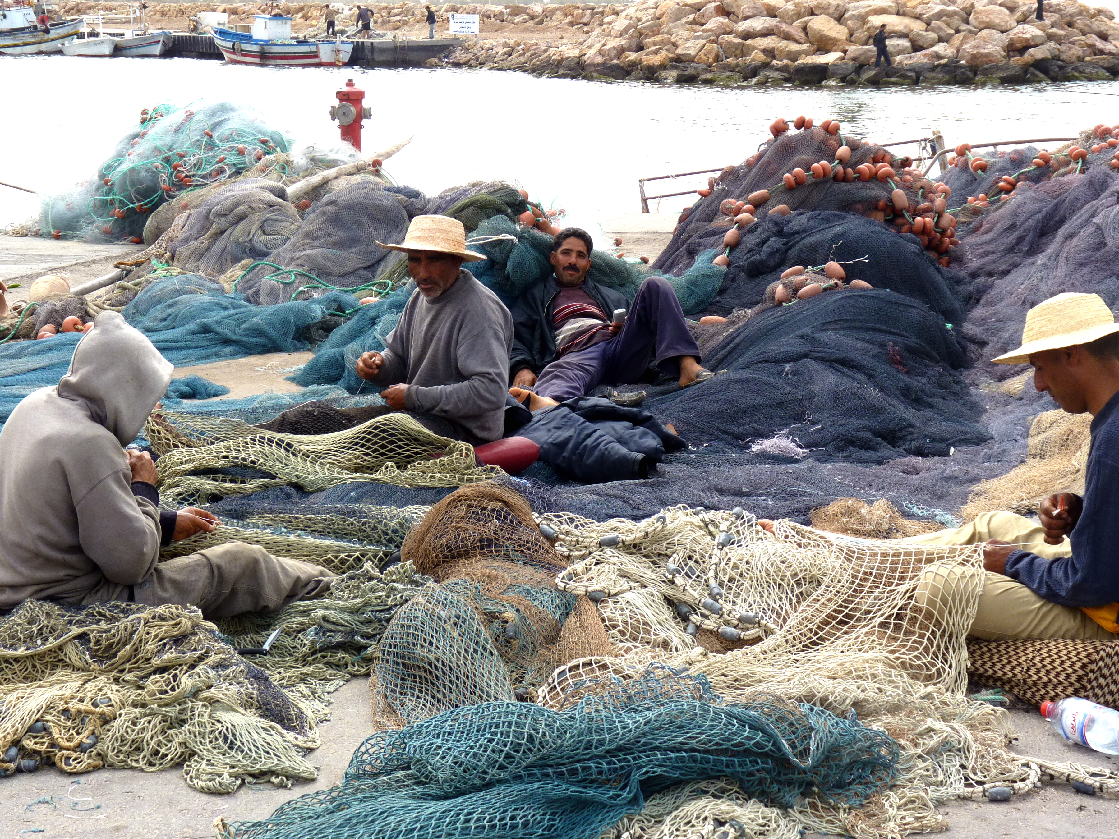 Repairing nets in the port at Djerba